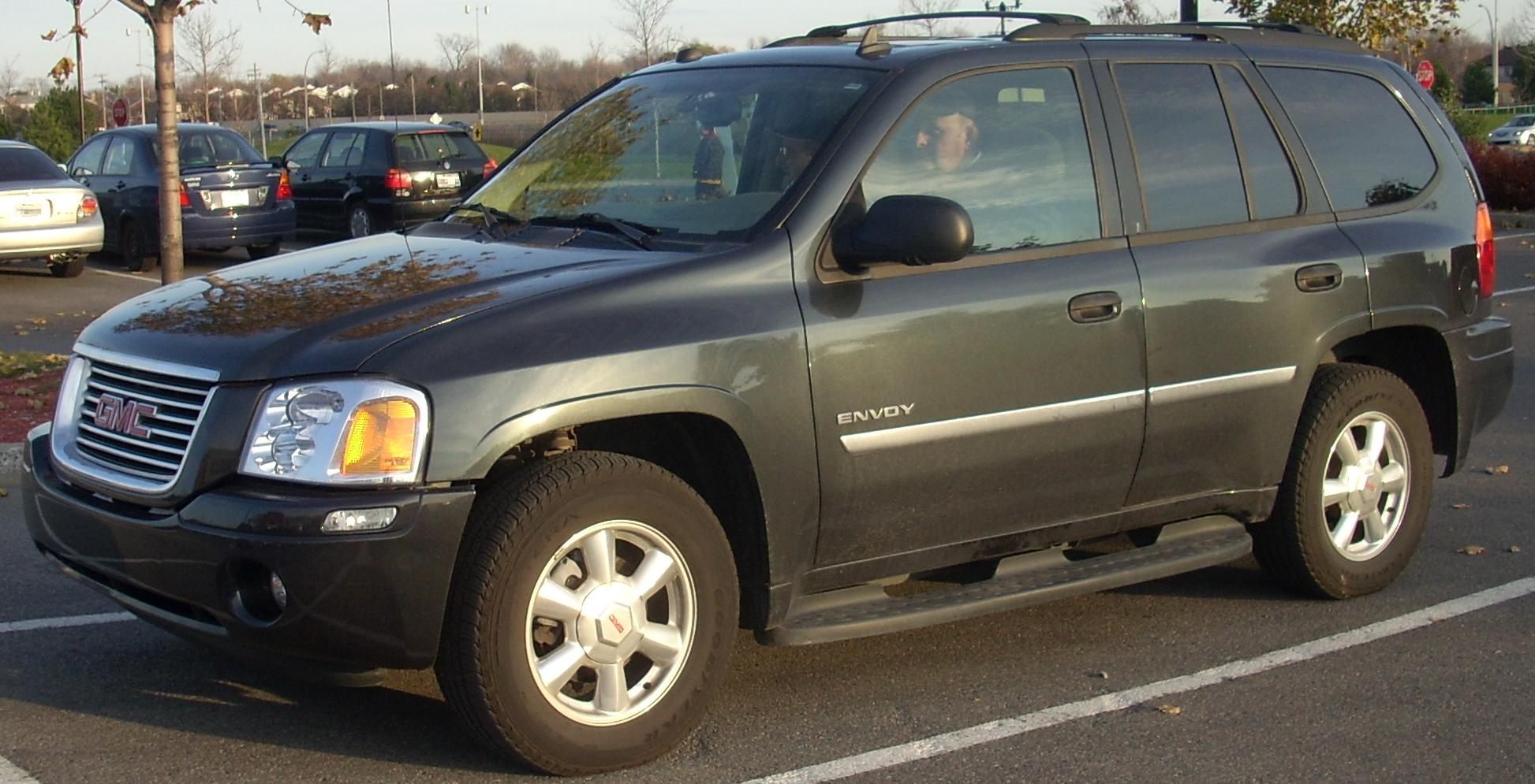 2006 GMC Envoy photographed in Montreal, Quebec, Canada.